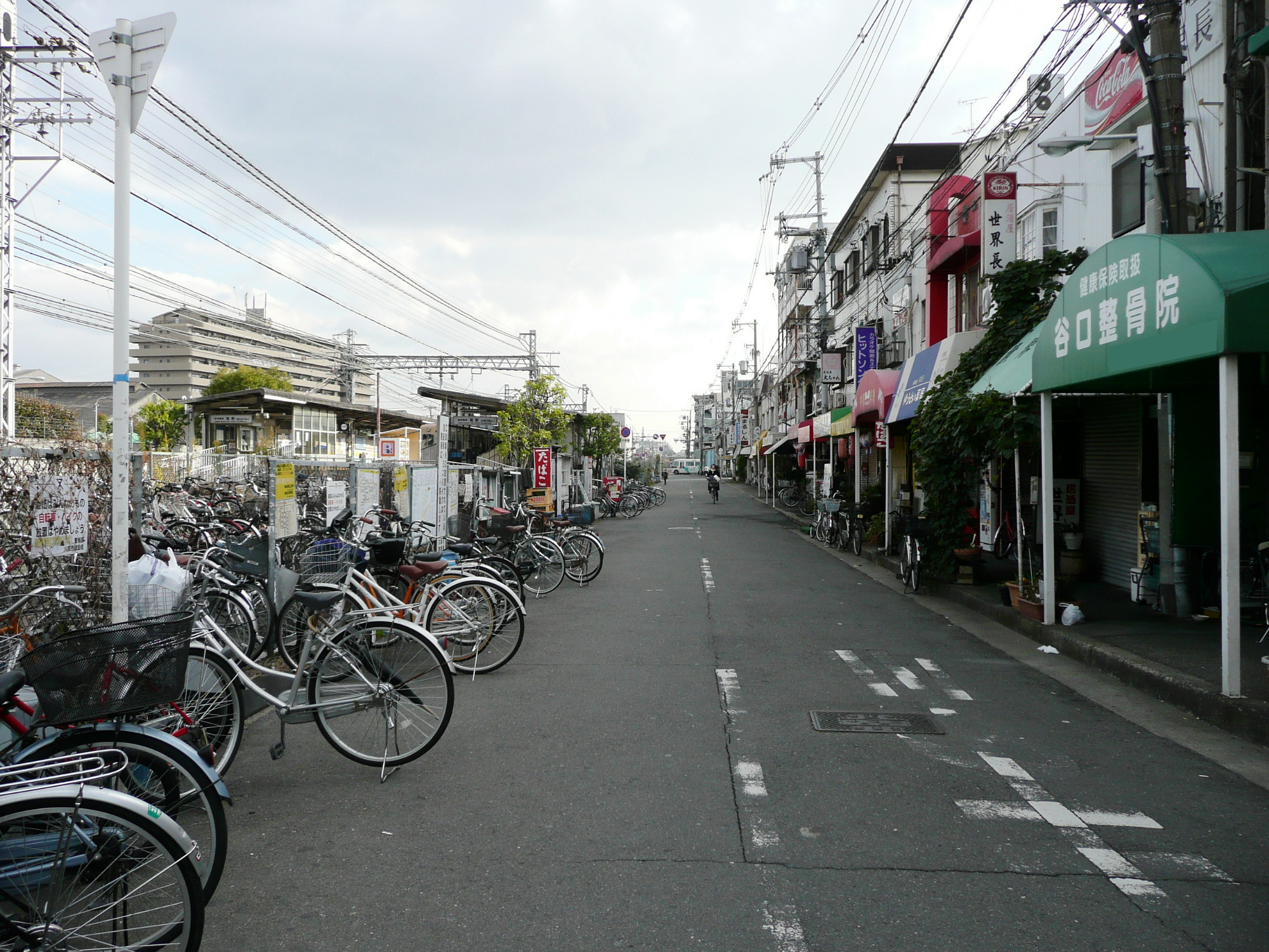 Hanshin Electric Railway,Nishi-Osaka Line,Fuku Station west. /阪神西大阪線福駅西側